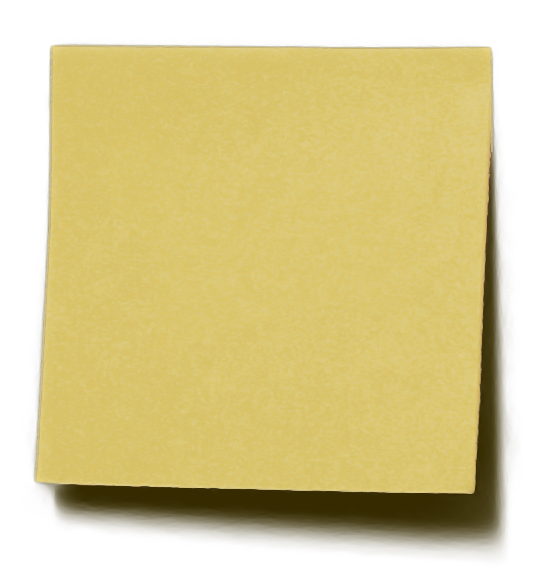 Post-It note with transparent background. (Super-sticky genuine original 3M version!)